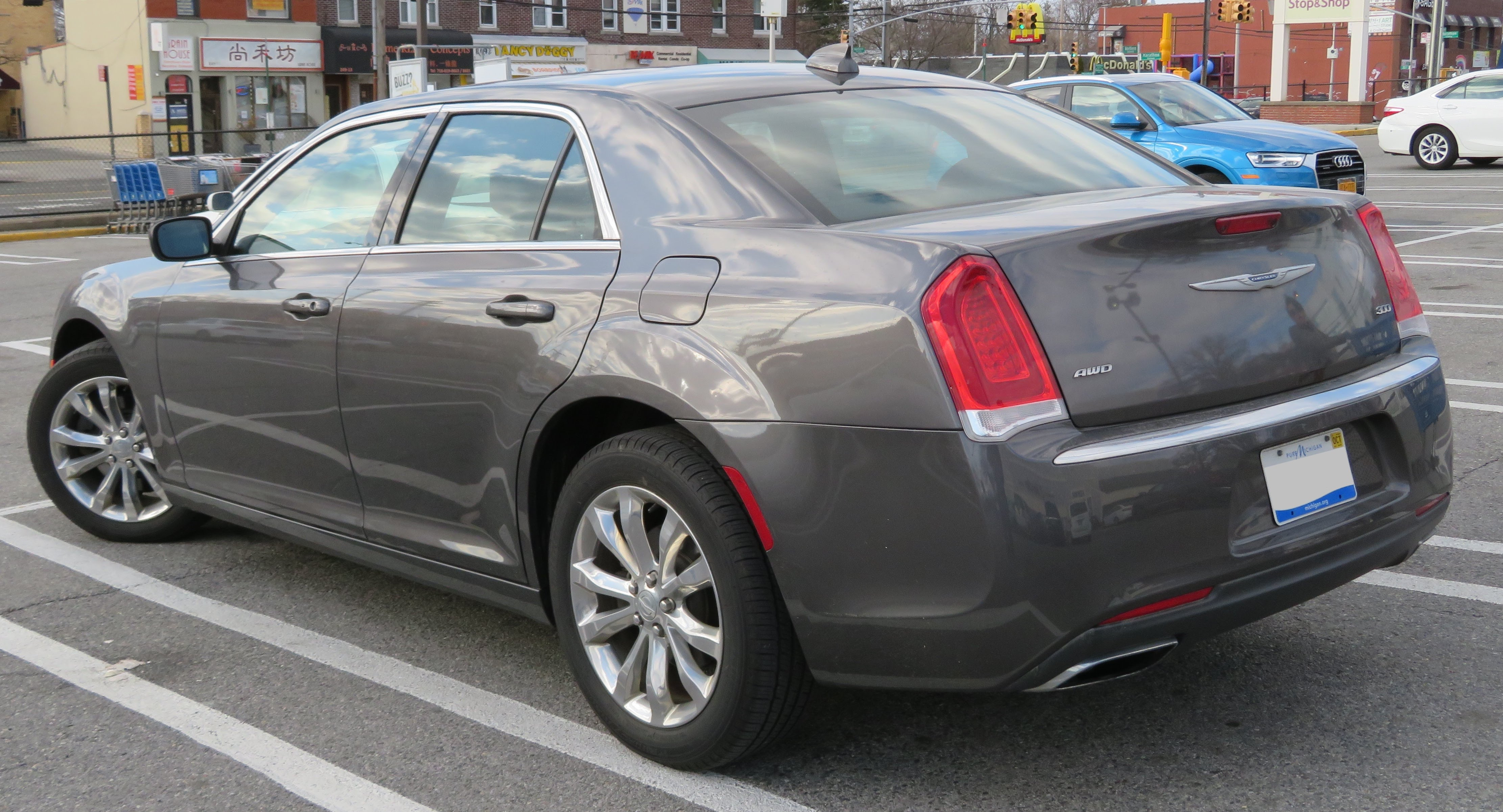 In Queens, New York